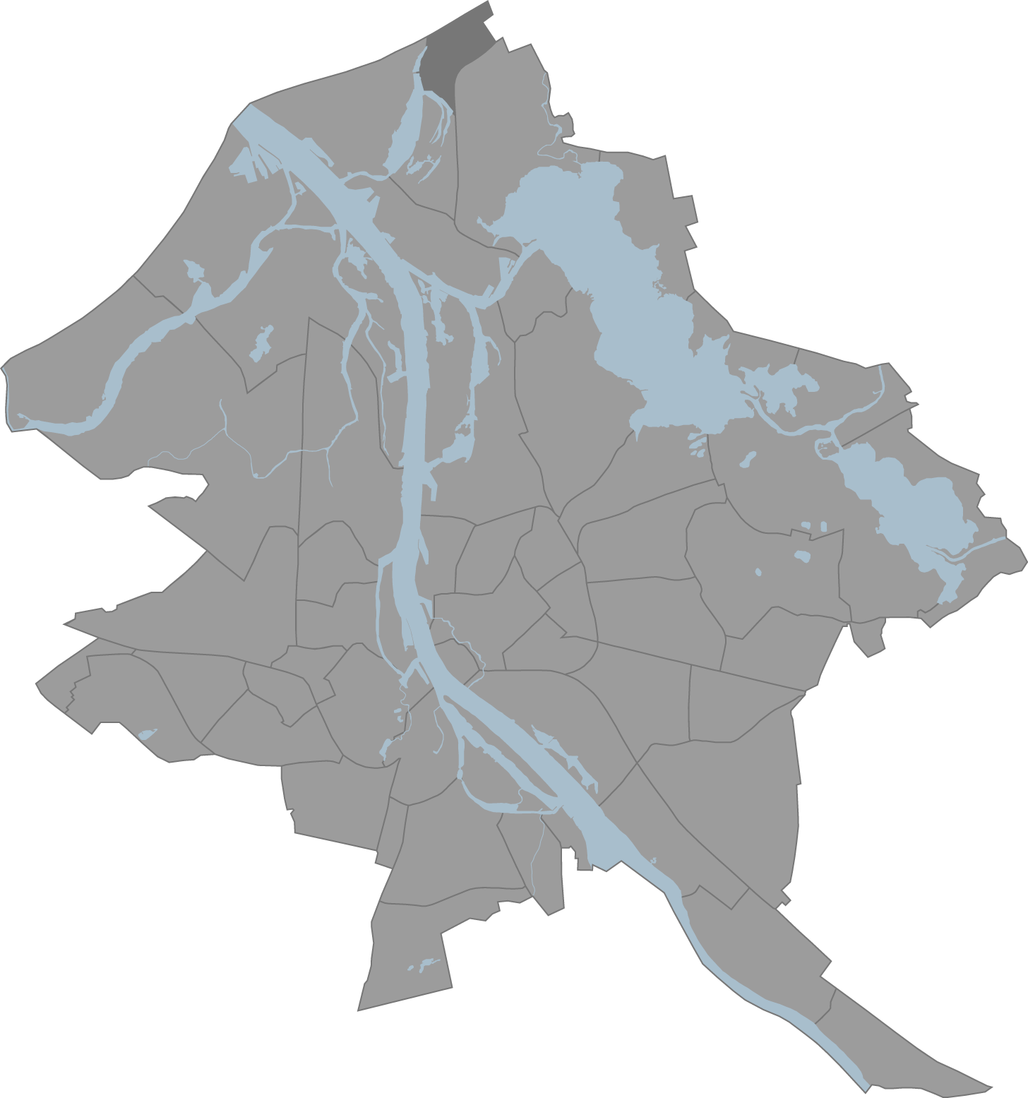 A map of Riga, Latvia with the eponymous commune highlighted